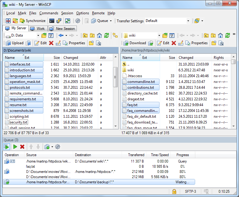 Screenshot of WinSCP 5.5.2 (Windows 7)